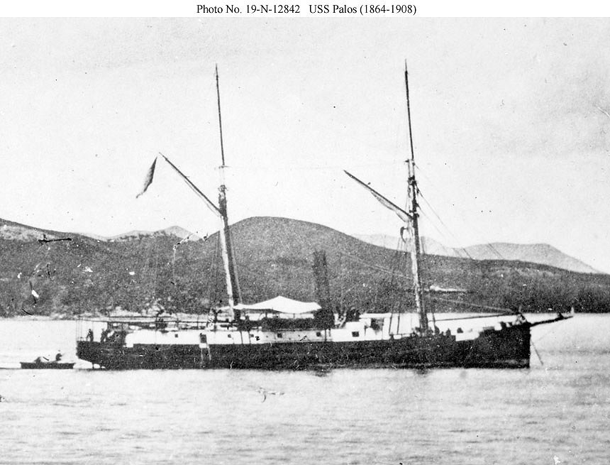 USS Palos, c1870